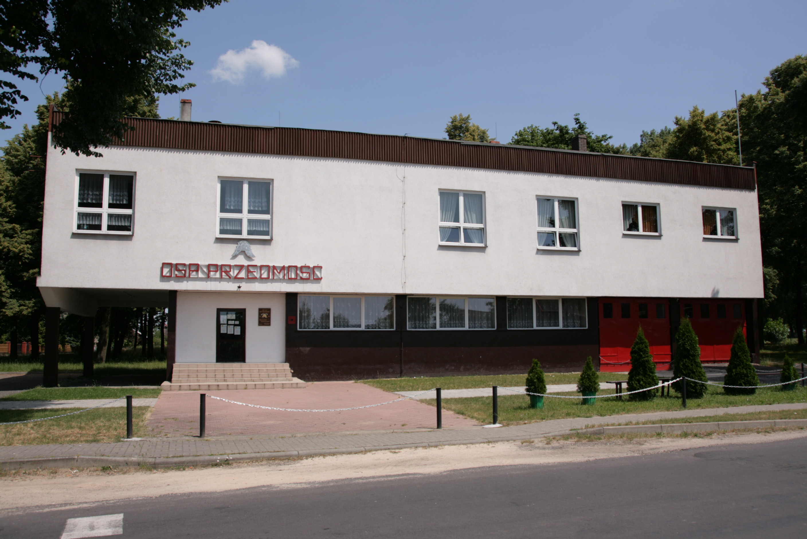 Bulding of Voluntary Fire Brigade in Przedmosc